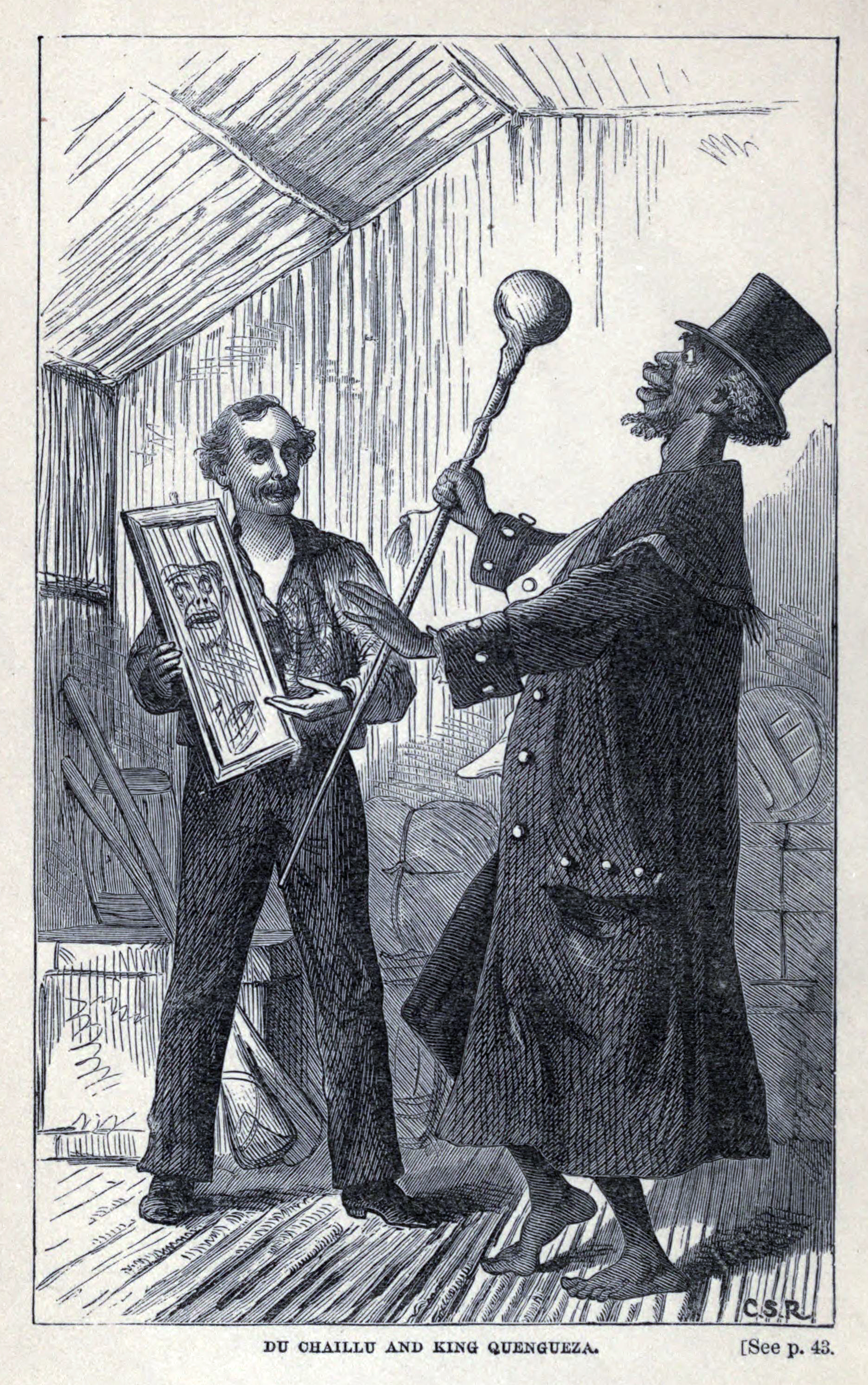 Illustration from The Country of the Dwarfs